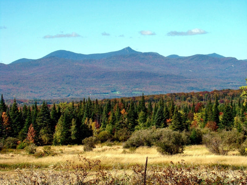 The Jay Peak complex is the most northern set of mountains in Vermont's Green Mountain range.